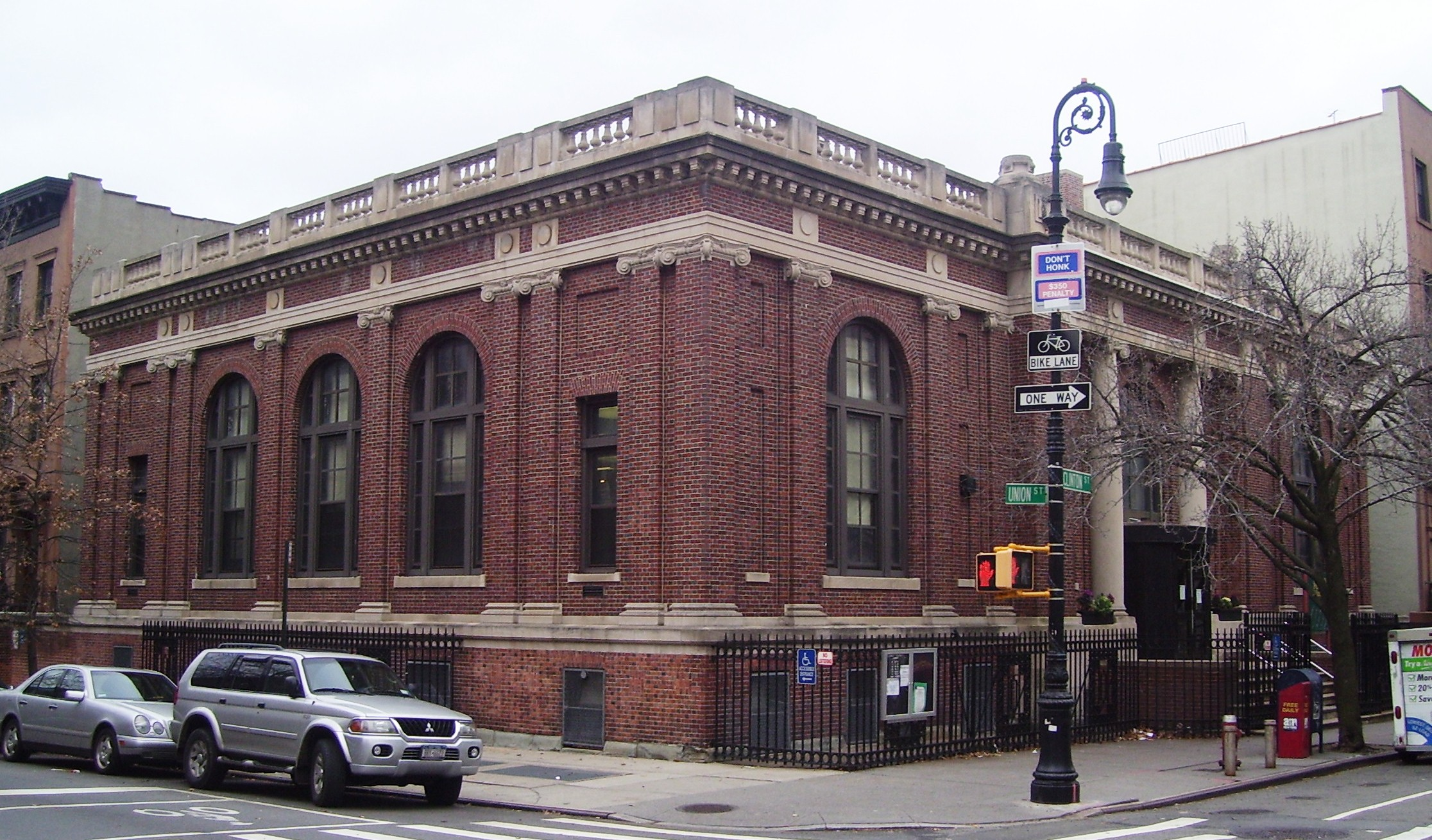 The Carroll Gardens Branch of the Brooklyn Public Library, at 296 Clinton Street at the corner of Union Street in the Carroll Gardens neighborhood of Brooklyn, New York City, was founded in 1901 as the Carroll Park Branch. It was located at Smith and Carroll Street inb a rented facility. The branch building was opened in 1905, and was the fifth Carnegie Branch in Brooklyn. The branch closed fror removations in 1973, and reopened as the Carroll Gardens Branch, by community request. (Source: "Carroll Gardens Library - Local History & Photos" on the Brooklyn Public Library website)